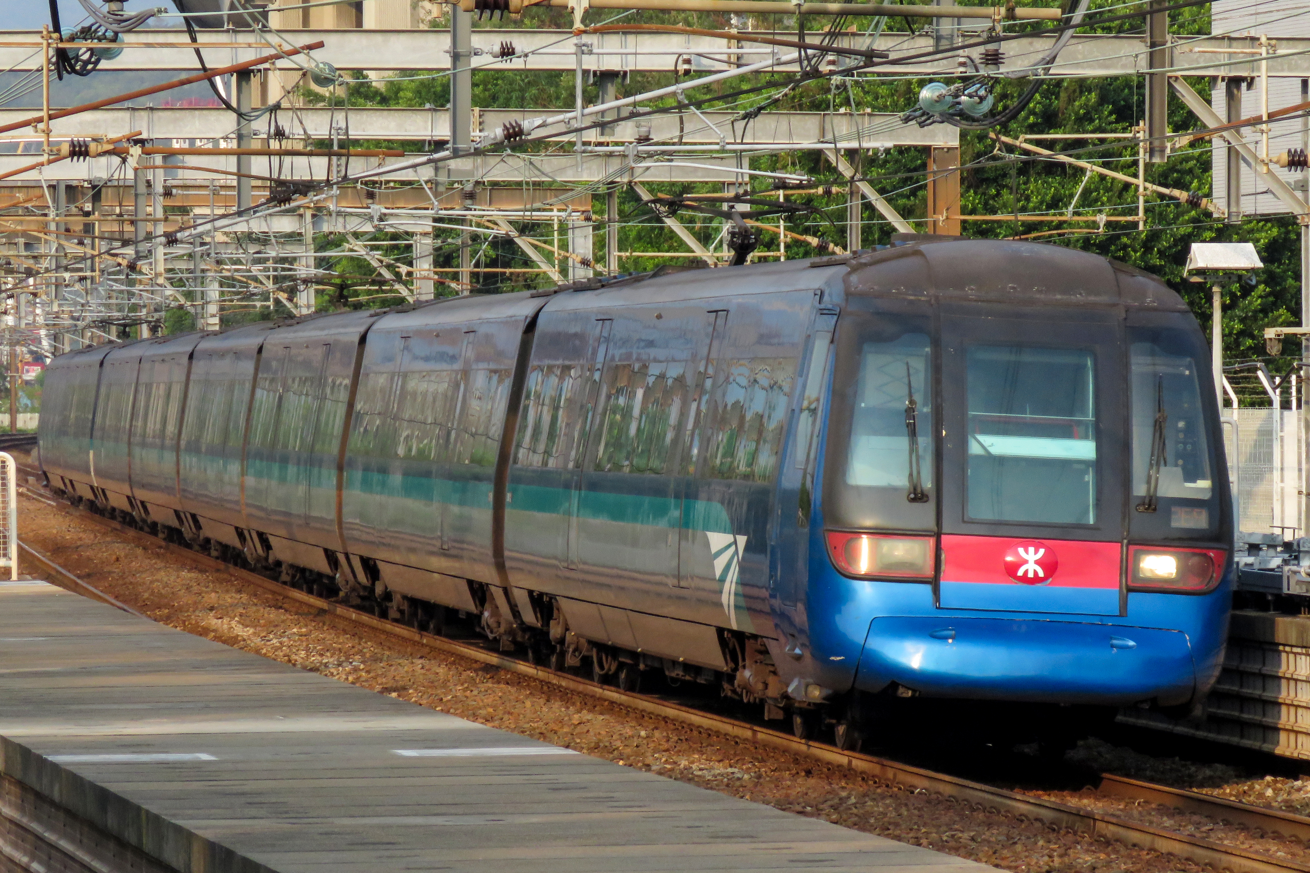 Here comes an outbound Airport Express train.